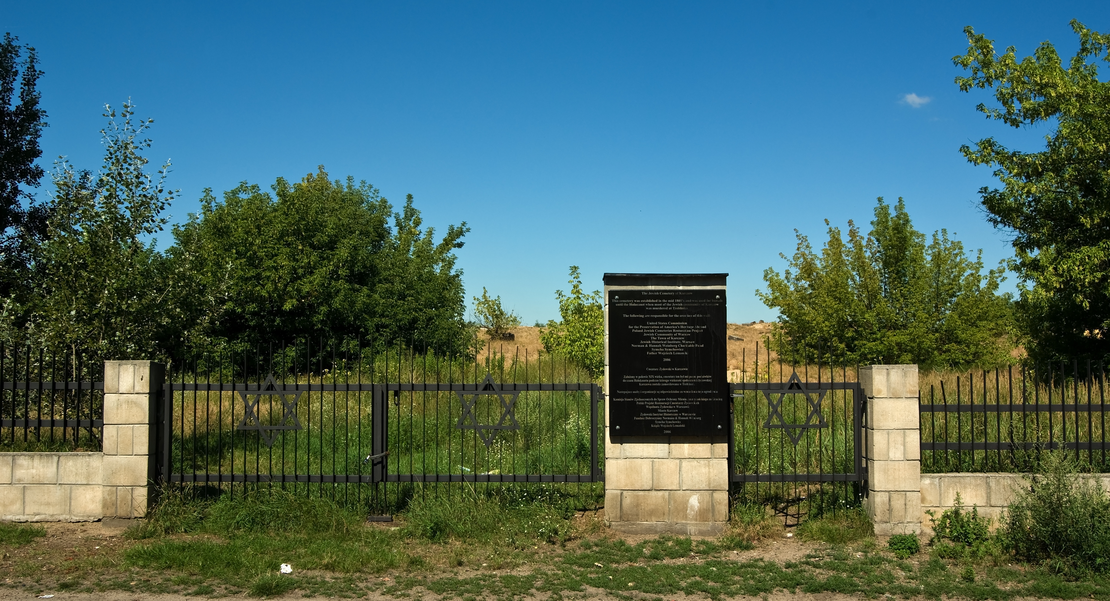 Jewish cemetery in Karczew - gate